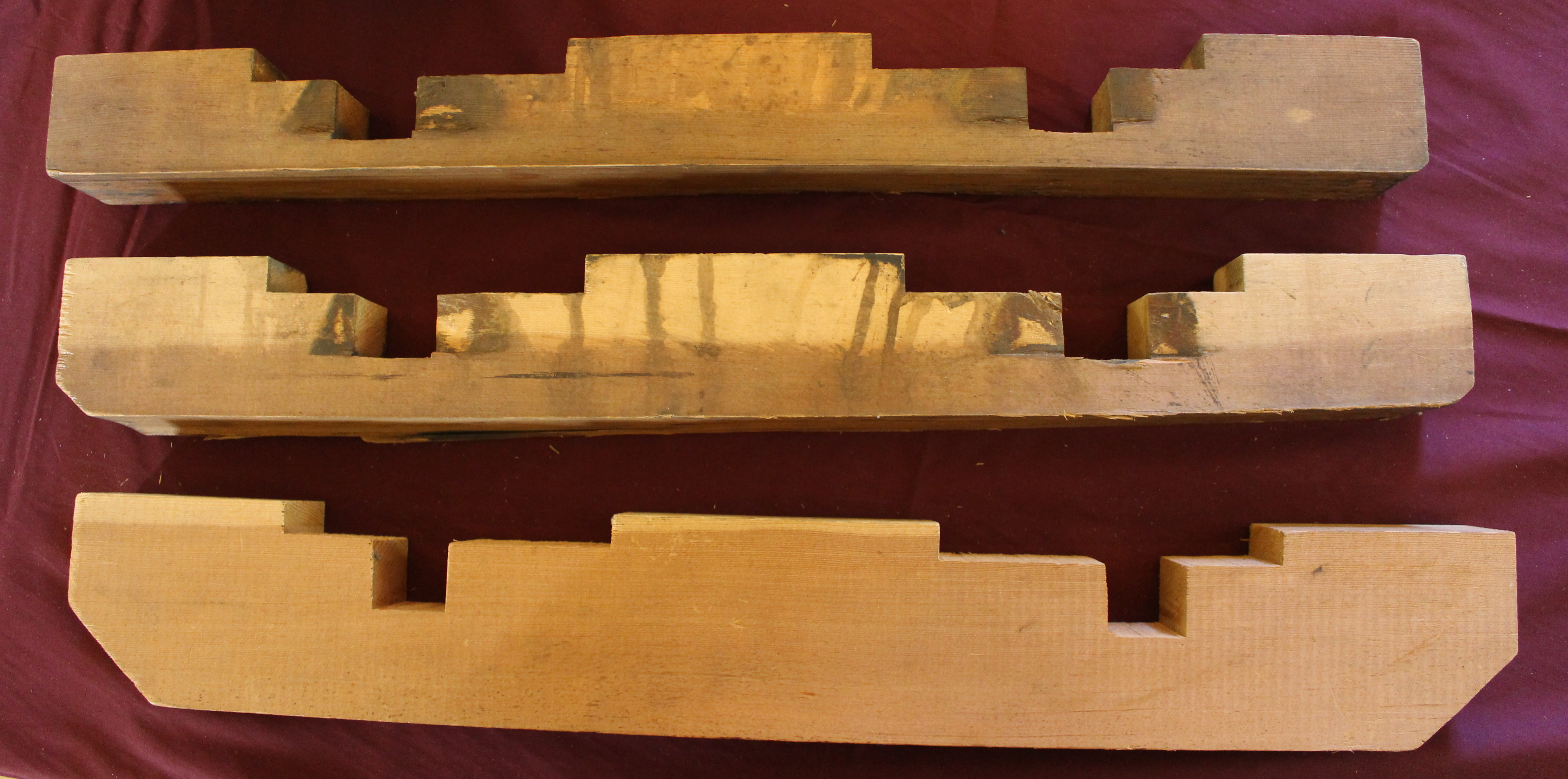 Wooden brake blocks of a San Francisco cable car, in three different states of usage: New and unused (bottom), after about 1-2 days of use (middle), and near end of life (top). Photo of an exhibit at the 2015 San Francisco History Expo